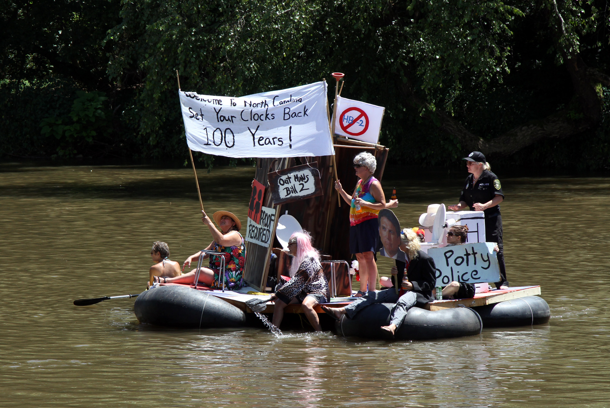 RiverLink's annual 'Anything That Floats' parade this year enjoyed ideal weather and water levels. This float pointedly and creatively ridiculed the reactionary and discriminatory law passed by North Carolina's Republican legislators, which mandated which bathrooms transgender people have to use.